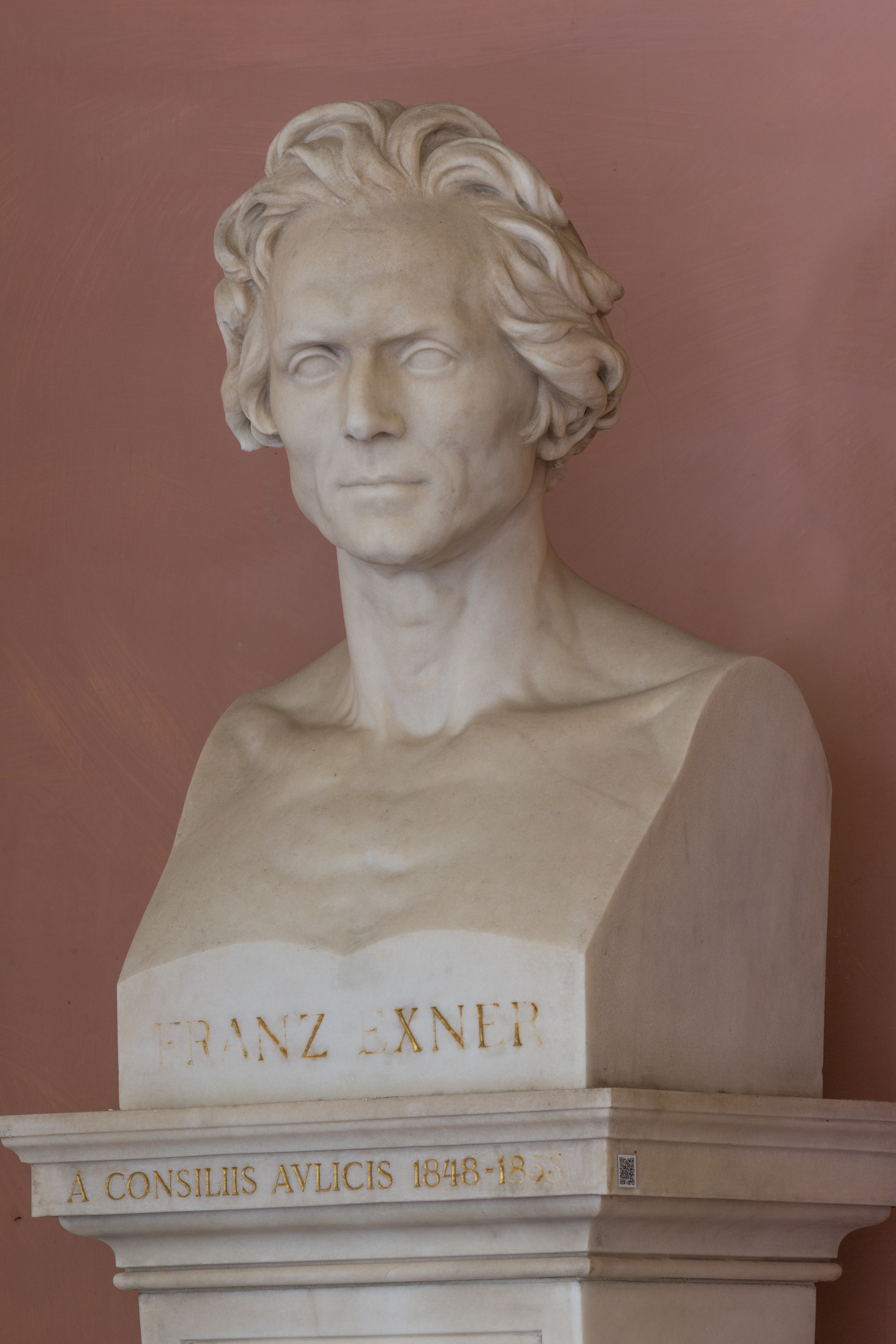 Franz Exner (1802-1853), bust (marble) in the Arkadenhof of the University of Vienna, (Maisel# 57). Artist: Carl Kundmann (1838-1919), unveiled 1893